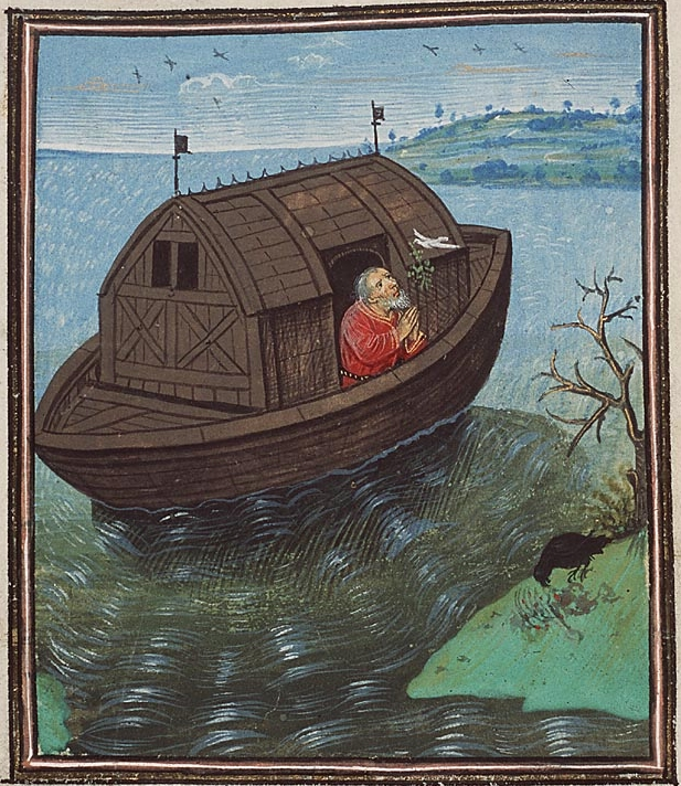 Noah sends off a dove from the ark. Technique: Miniature on vellum Location: Museum Meermanno Westreenianum, The Hague Notes: From Aegidius of Roya's "Compendium historiae universalis" of Southern Netherlands (manuscript "Den Haag, MMW, 10 A 21")